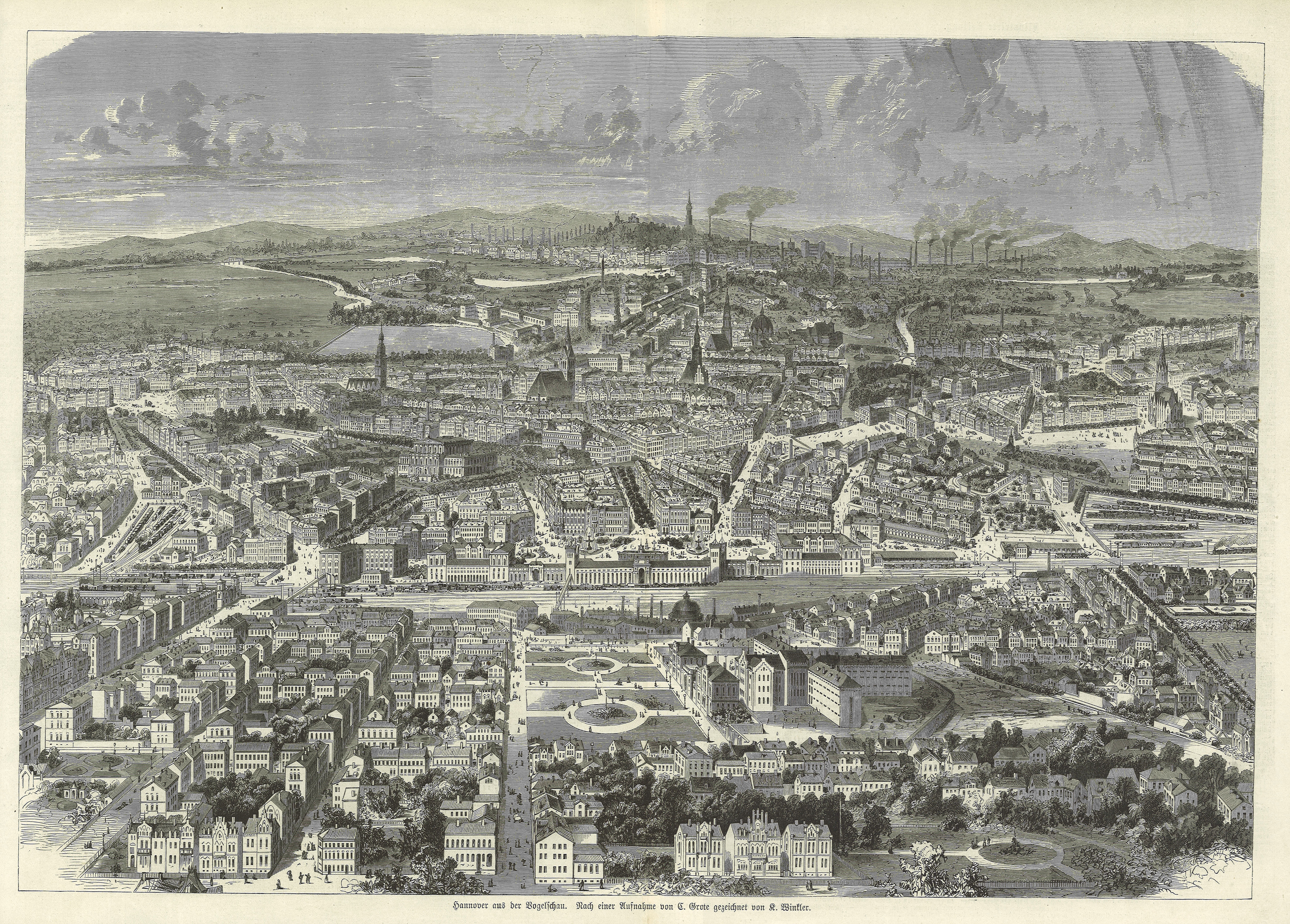 Hanover